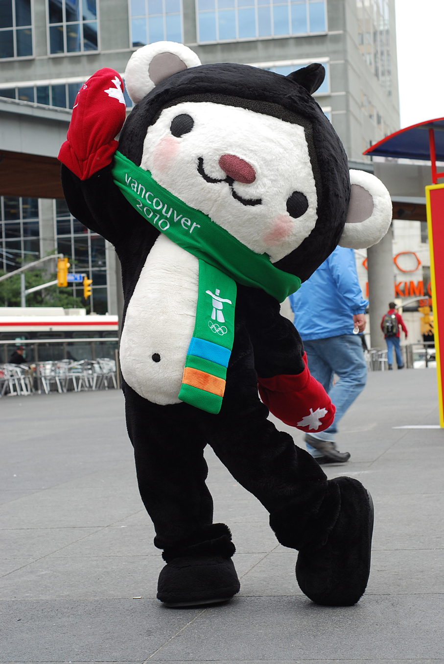 Winter Olympic 2010 mascot Miga.